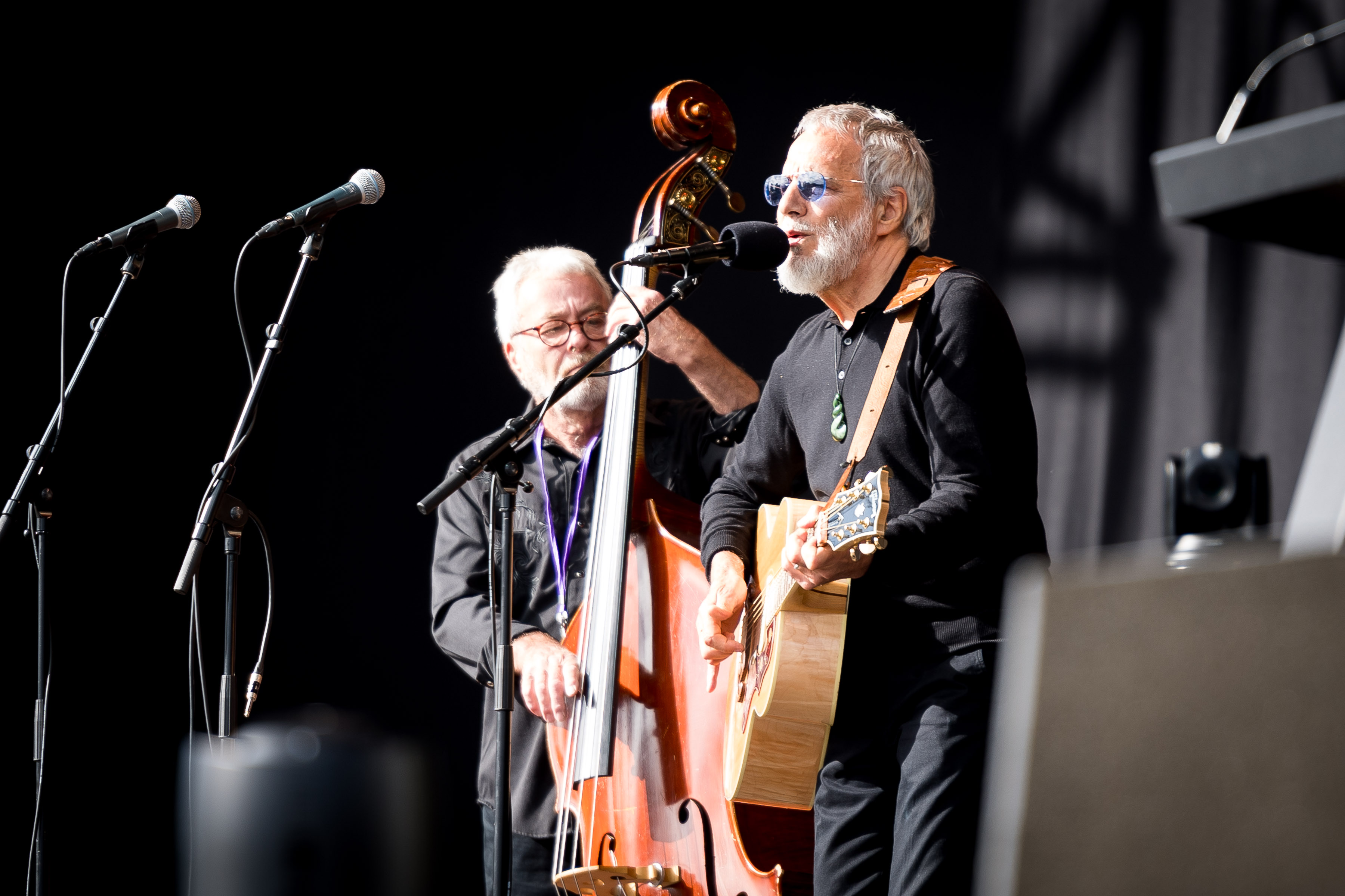 Yusuf Islam (Cat Stevens) singing Peace Train at the National Remembrance Service 29 March 2019 in Hagley Park, Christchurch, New Zealand.